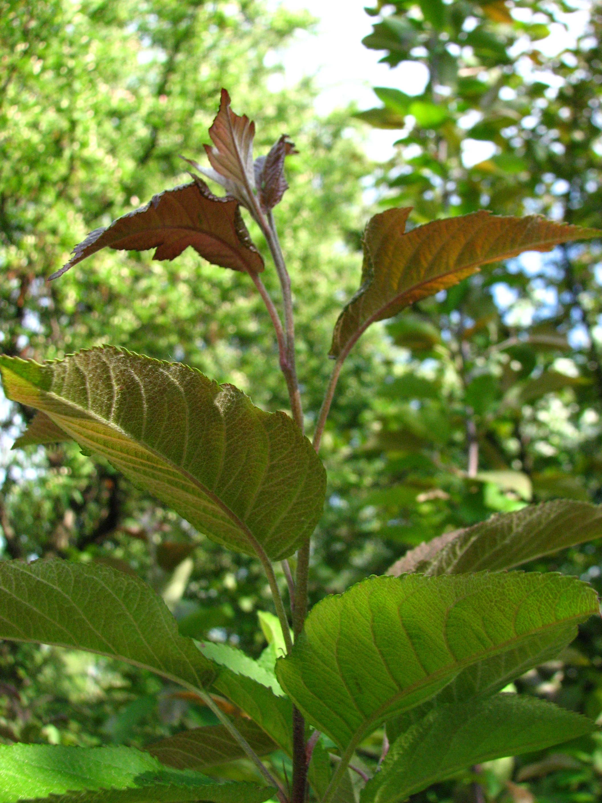 Malus fusca (young leaves) in the Botanical Garden of Moscow State University (main area on the Sparrow Hills; the Apple orchard). Spring.